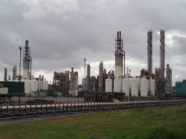 Severnside fertilizer works. This plant is owned by Terra Nitrogen UK Ltd. and manufactures ammonia and ammonium nitrate.